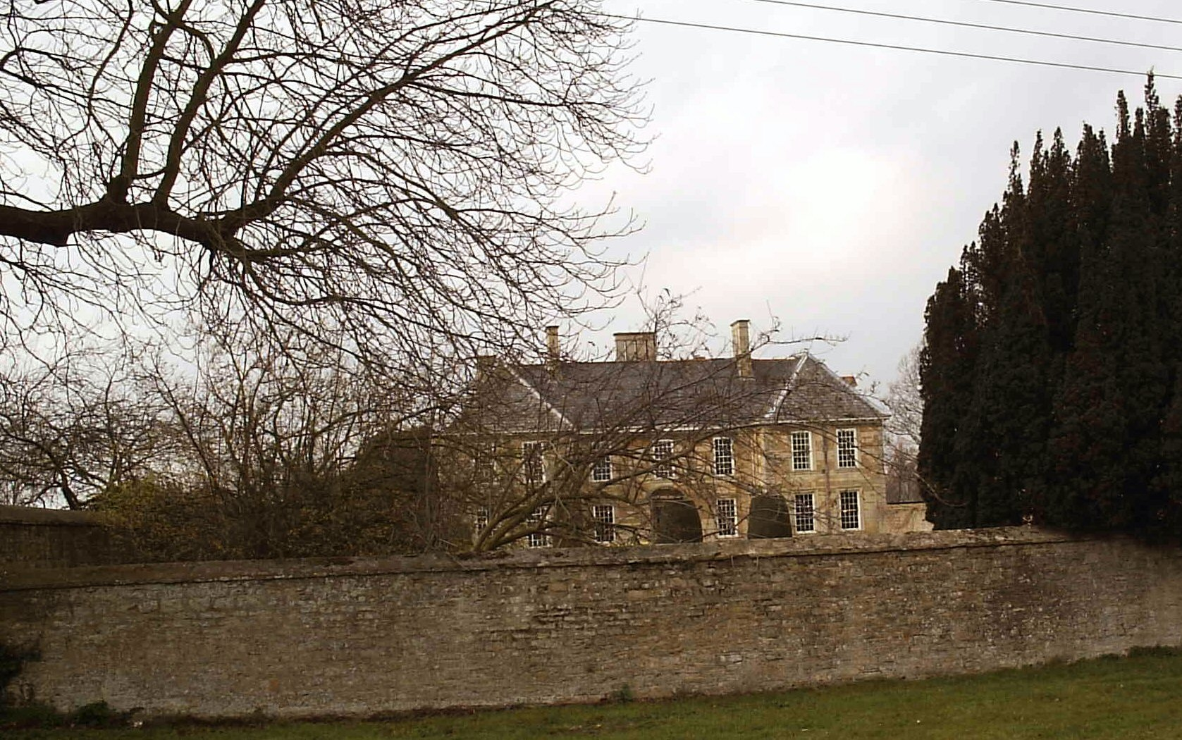 Grendon Hall, Main Road, Grendon, Northants, England Picture taken by R Neil Marshman (c) March 2005